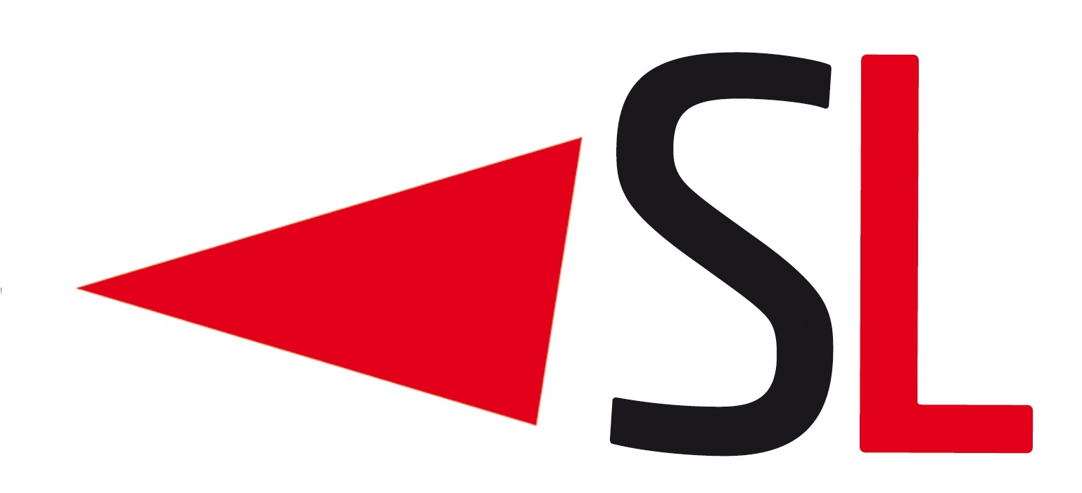 SL Logo Kurzversion